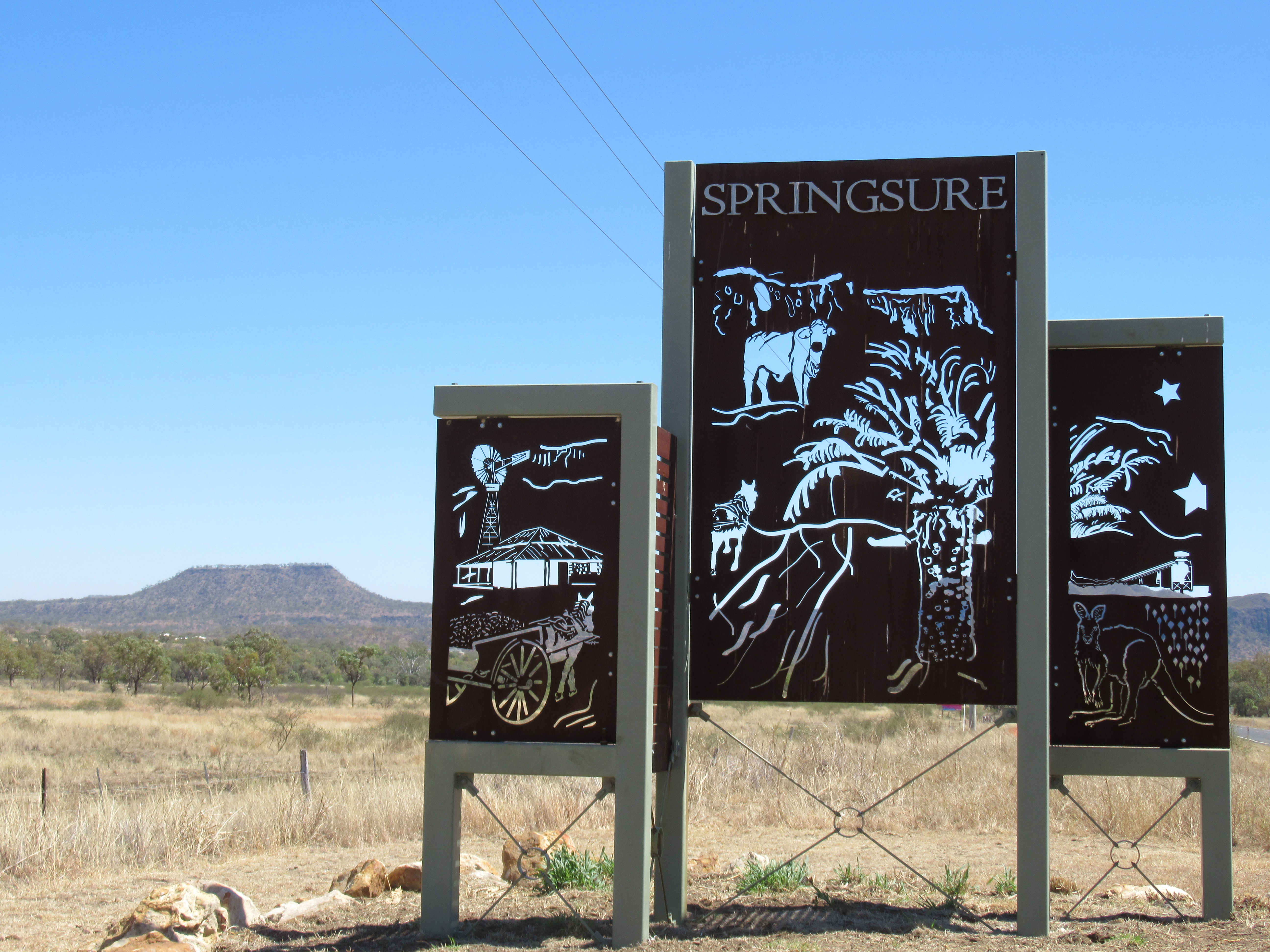 These signs were manufactured for the Central Highlands Regional Council by GMG (Global Manufacturing Group). Similar city entrance signs have been erected at Rolleston, Blackwater and Emerald in Queensland, Australia.